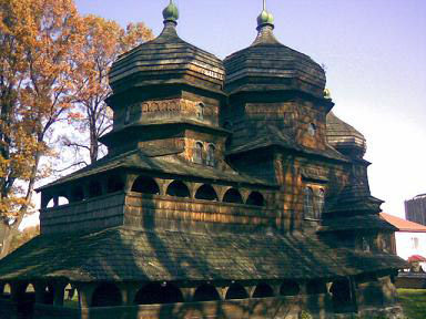 Wooden church of St. Yura in Drohobych, oblast Lviv, Ukraine. Built at the end of 15th/beginning of 16th century.